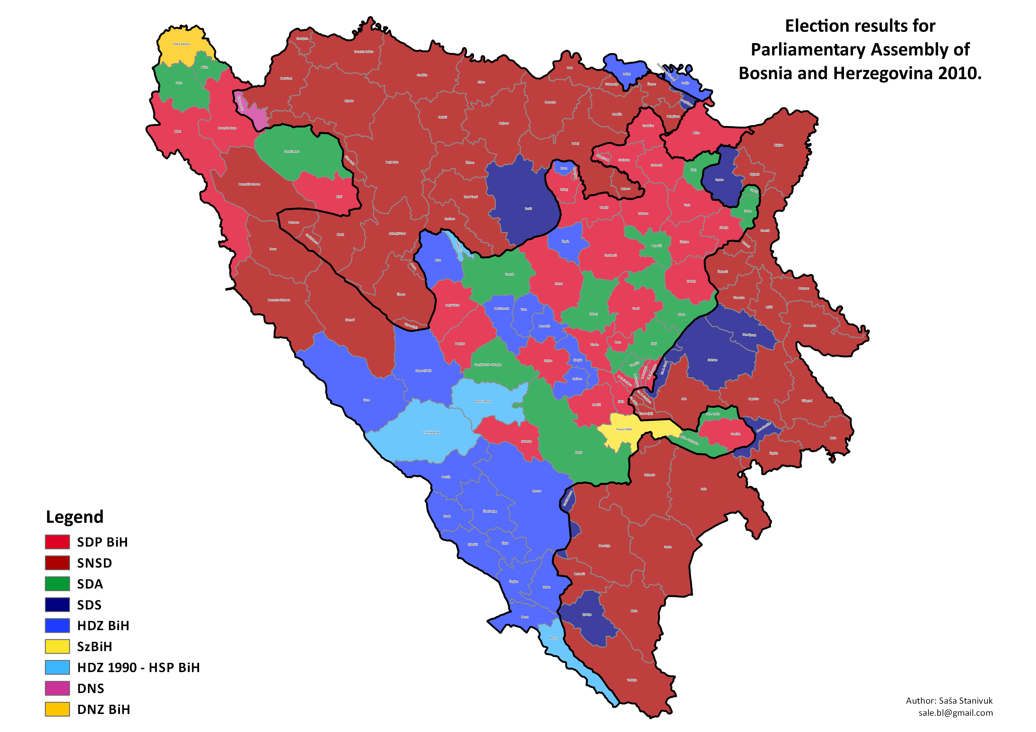 Bosnia and Herzegovina, parliamentary election map, 2010